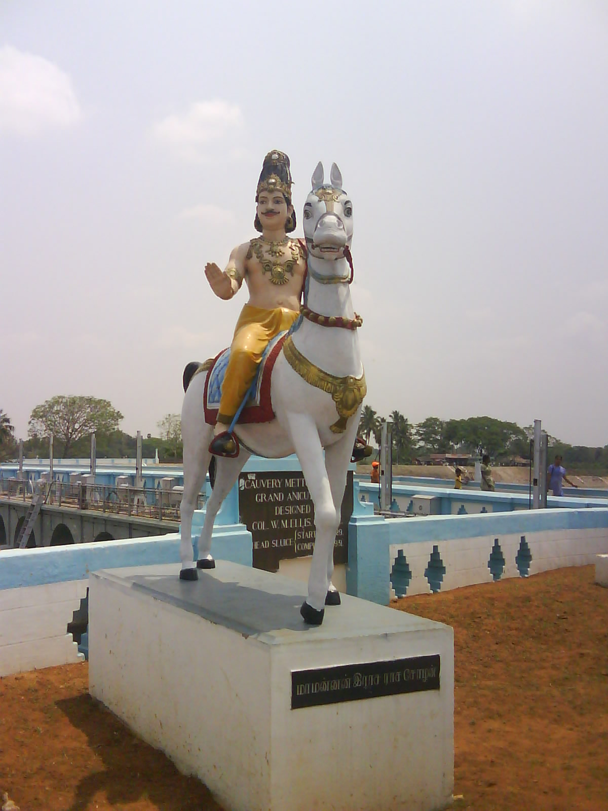 A statue of Raja Raja Chozhan, Picture Taken at Kallanai (also called as Grand Anaicut).